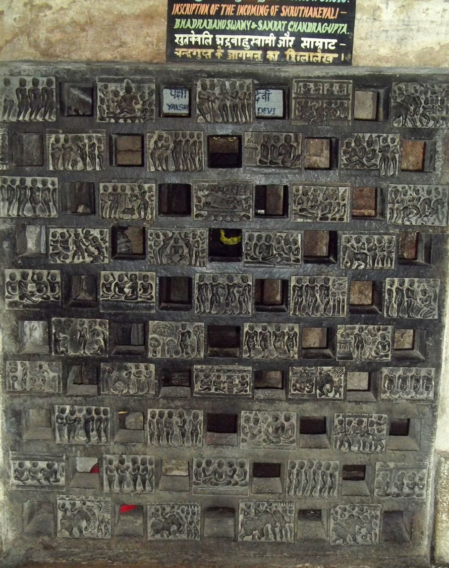 Inscription of the incoming of Shrutkevali Bhadrabahu swami and Samrat Chandragupt (Shravanbelgola)